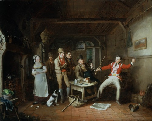 "A Soldier Relating his Exploits"; oil on panel, 48 x 60 cm, at National Army Museum